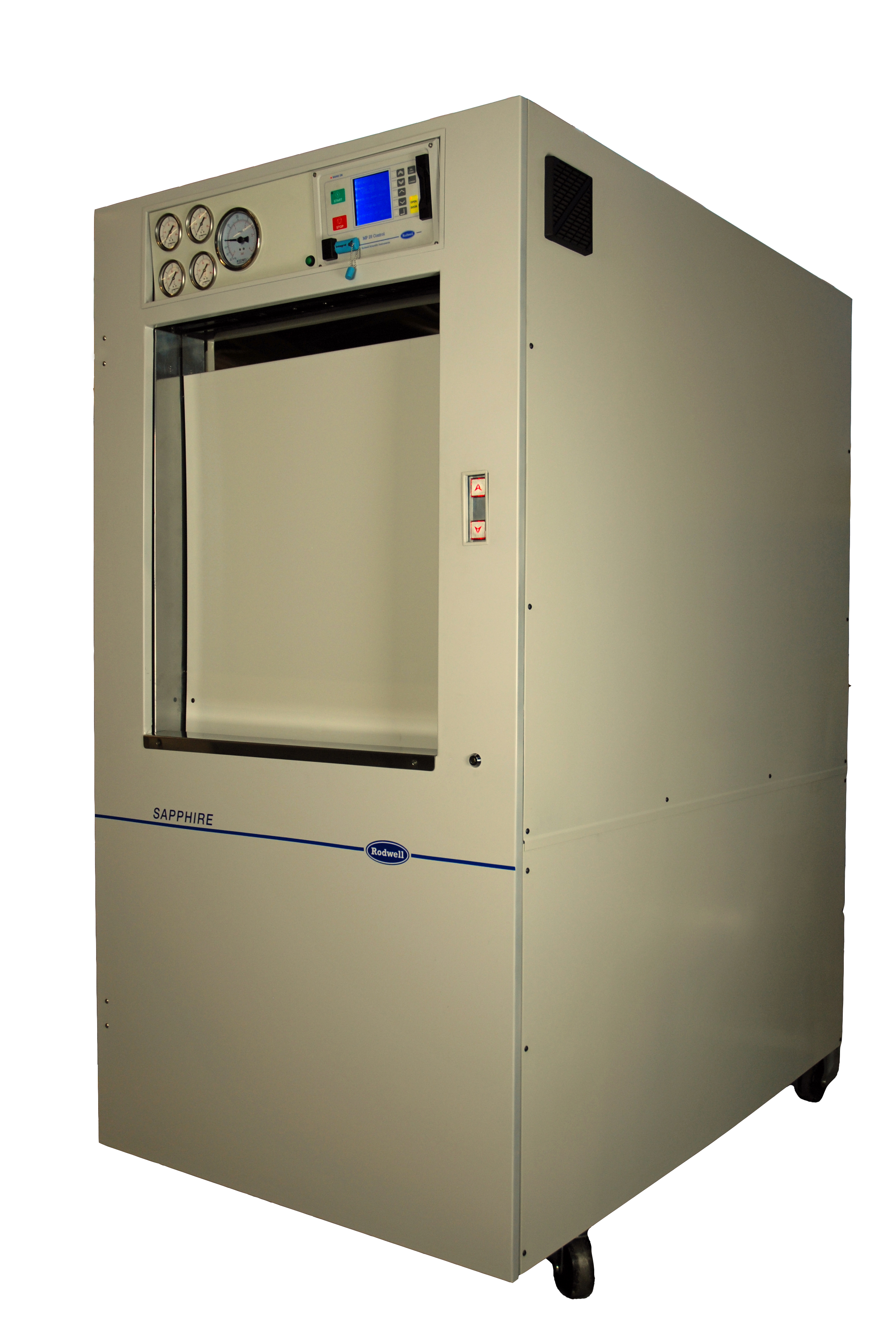 An automatic square chamber autoclave with mechanically hoisted power door.